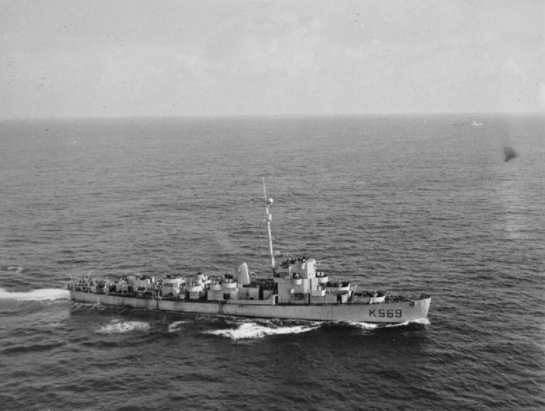 Photograph of Captain class frigate HMS Mounsey.